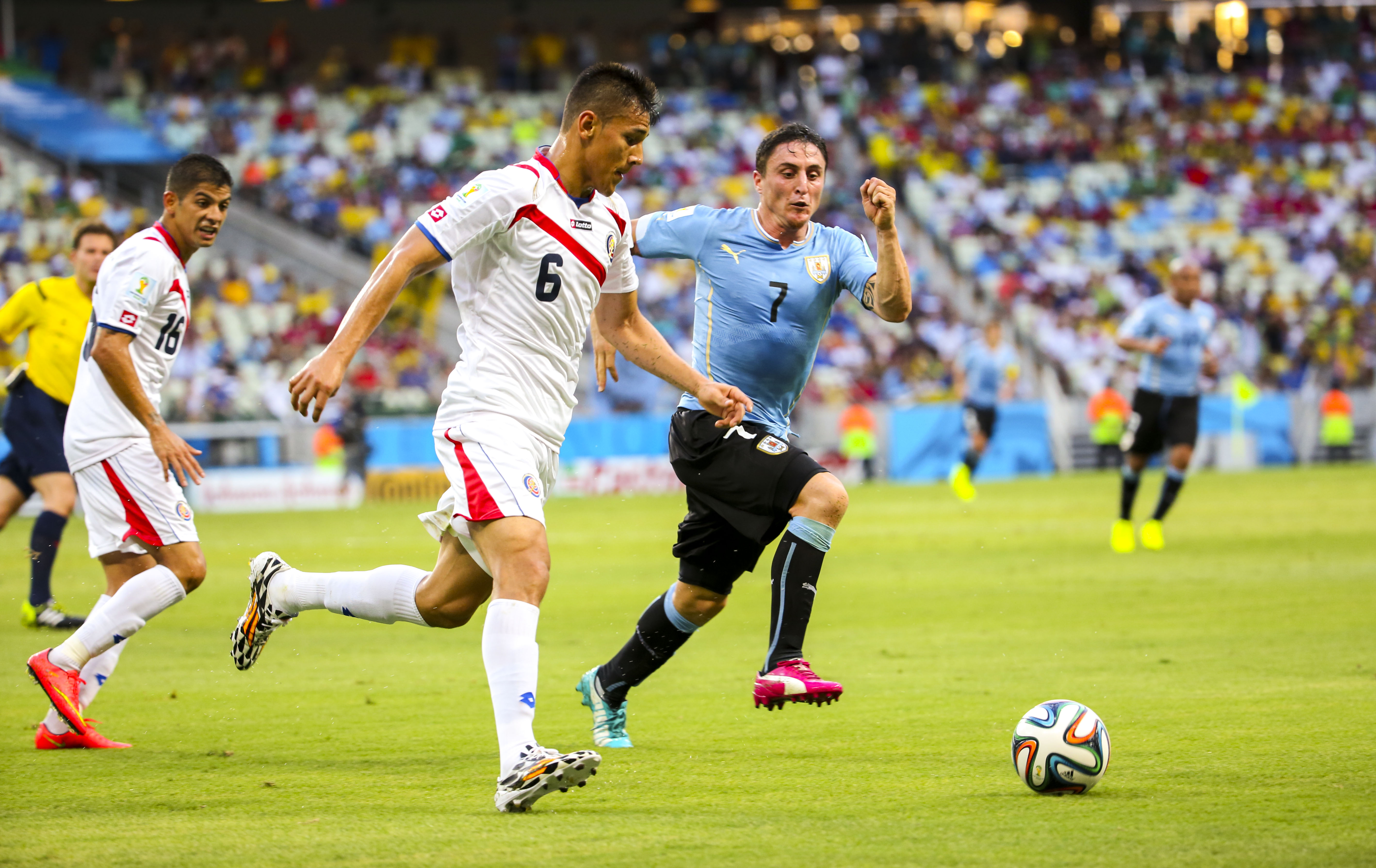 Uruguay and Costa Rica match at the FIFA World Cup 2014-06-14